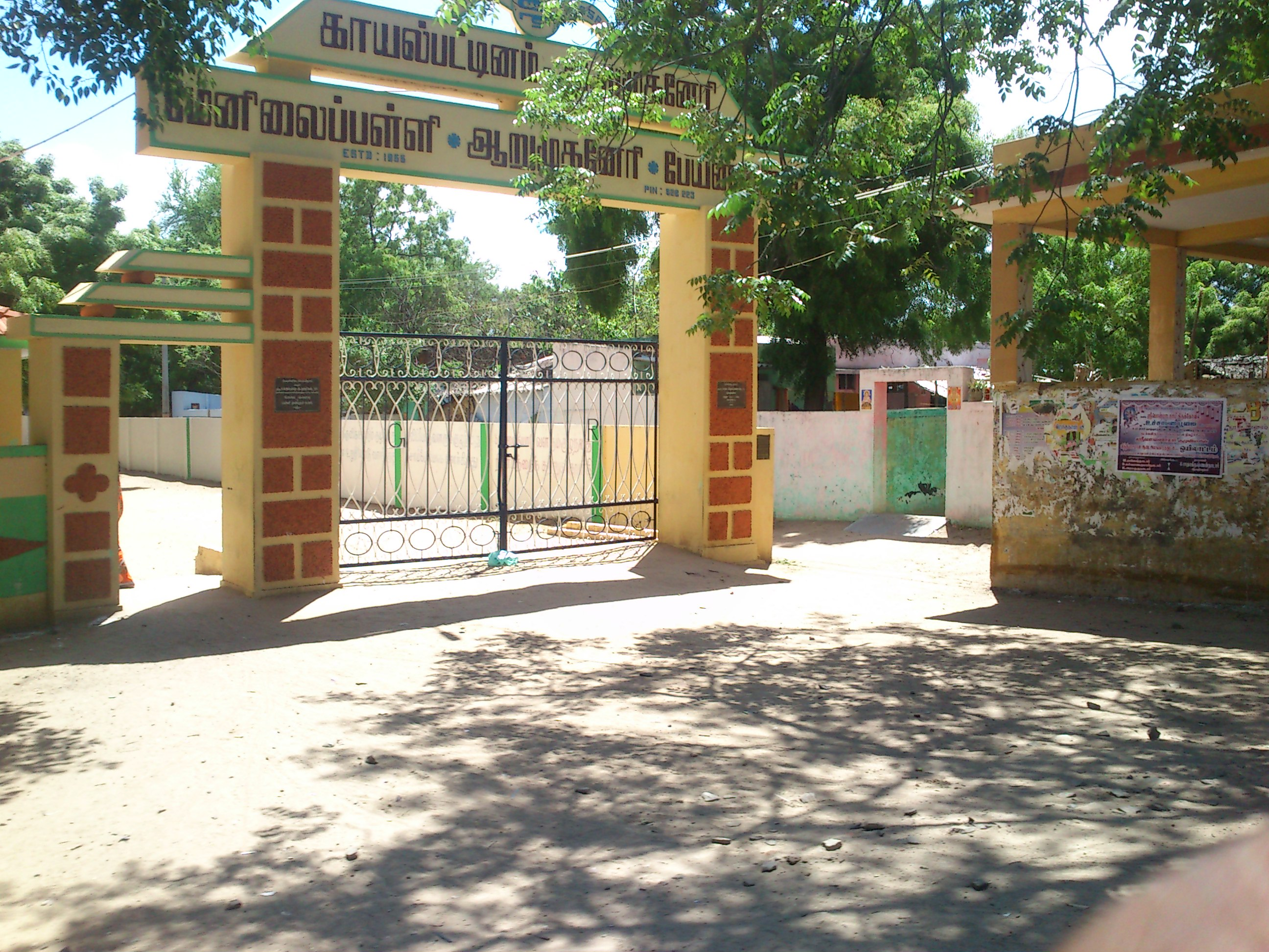 Vaikundaraja.s